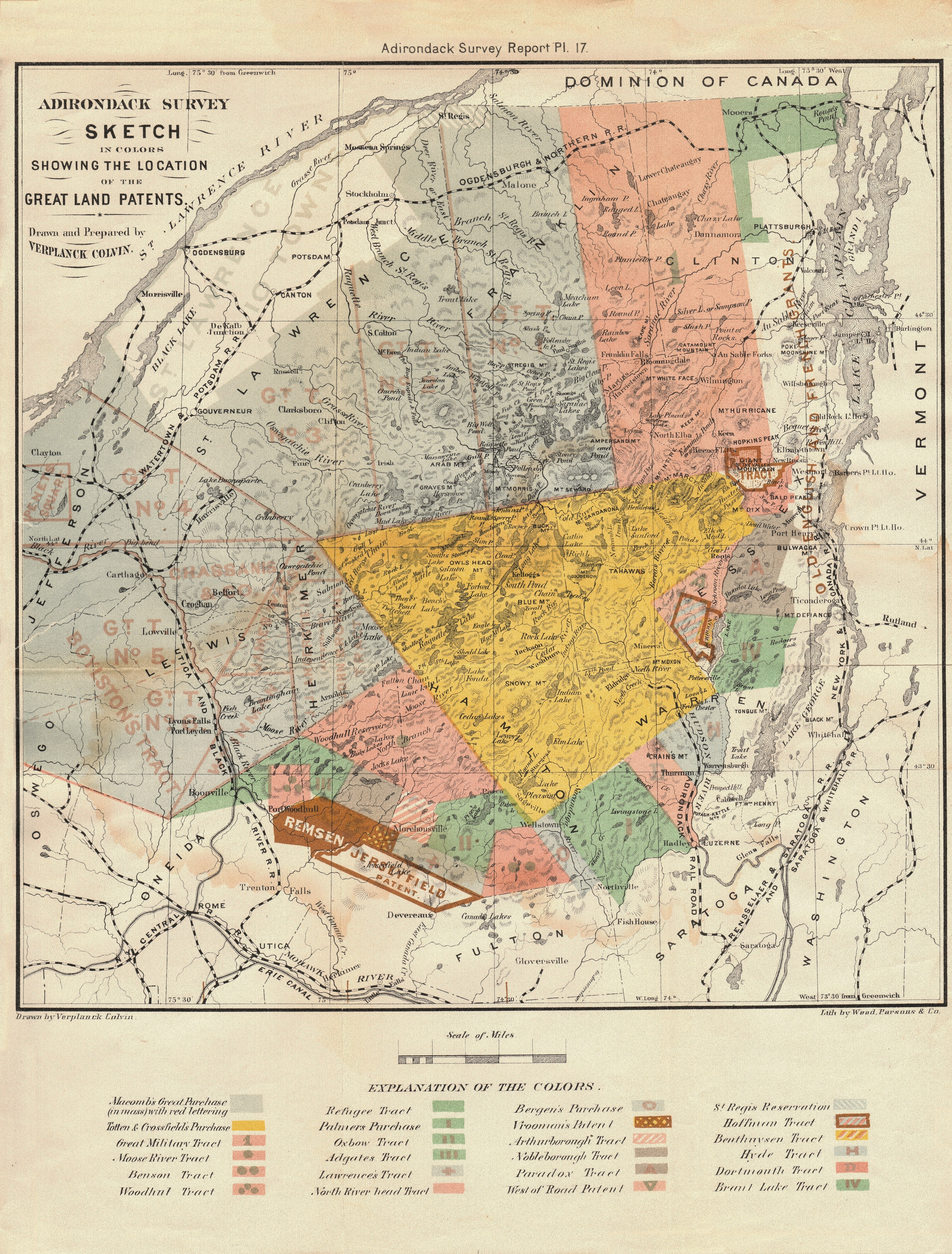 Fold out map from Colvin's "State of New York Report on the Topographical Survey of the Adirondack Wilderness of New York for the Year 1873." Scanned and archived at where it was marked as Public Domain. Very interesting map as it shows many of the older names for peaks and places.